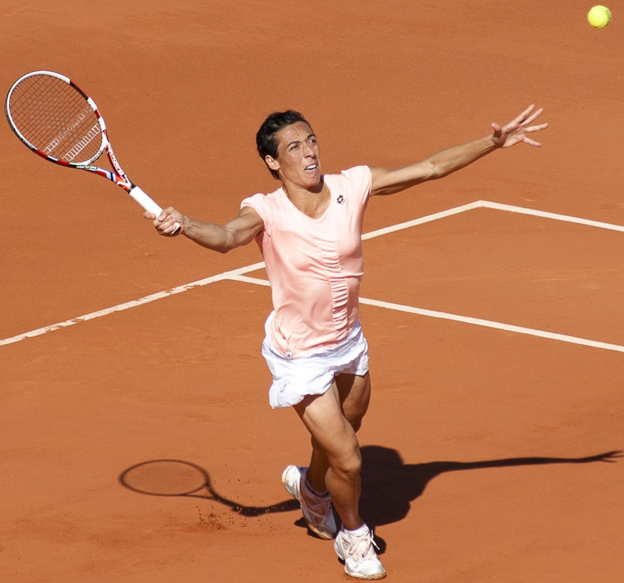 Francesca Schiavone playing at the 2011 French Open Emiliàn e rumagnòl: La Francesca Schiavone impgnàda in na partìda dal Roland Garros dal 2011